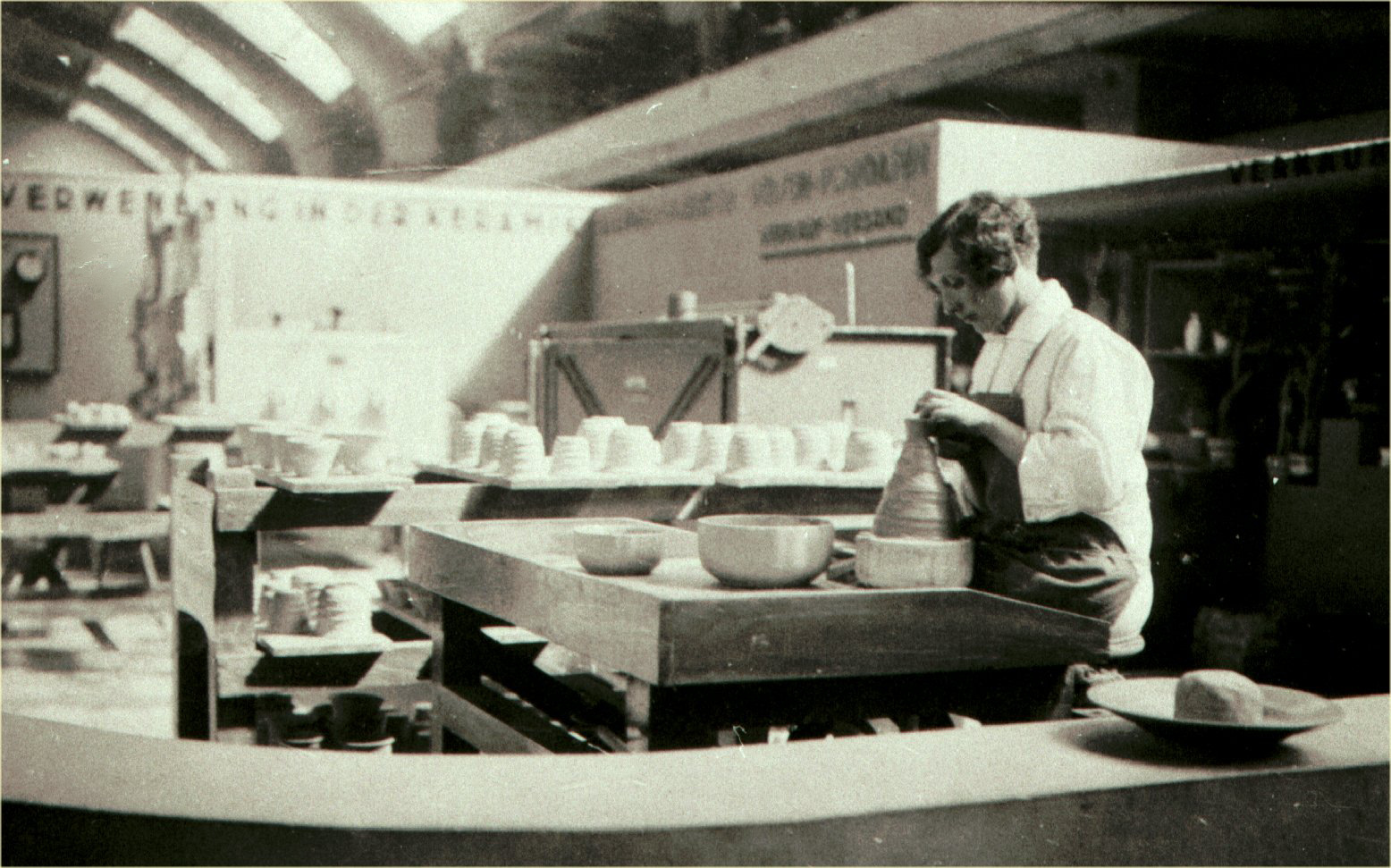 Thoma Gräfin Grote in a public presenation of the Steingutfabriken Velten-Vordamm, 1931